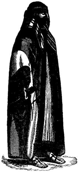 A sketch of the pirate Rahmah ibn Jabir al-Jalahimah drawn by Charles Ellms. The drawing appeared in Ellm's book The Pirates Own Book, first published in Boston in 1837.